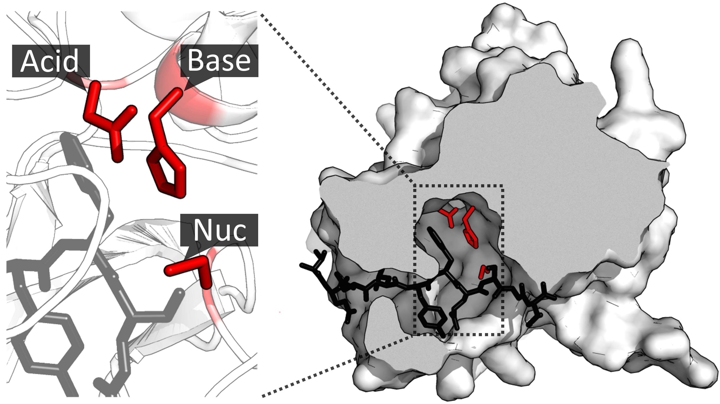 An enzyme (TEV protease) bound to a substrate (black) contains a catalytic triad of residues (red). The triad consists of an acidic residue (Acid), histidine (Base) and the nucleophile (Nuc). In the case on TEV protease, the acid is aspartate and the nucleophile is cysteine. (PDB: 1lvm​)